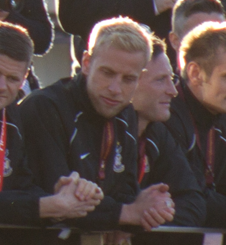 Andrew Davies. Image cropped from original at flickr.